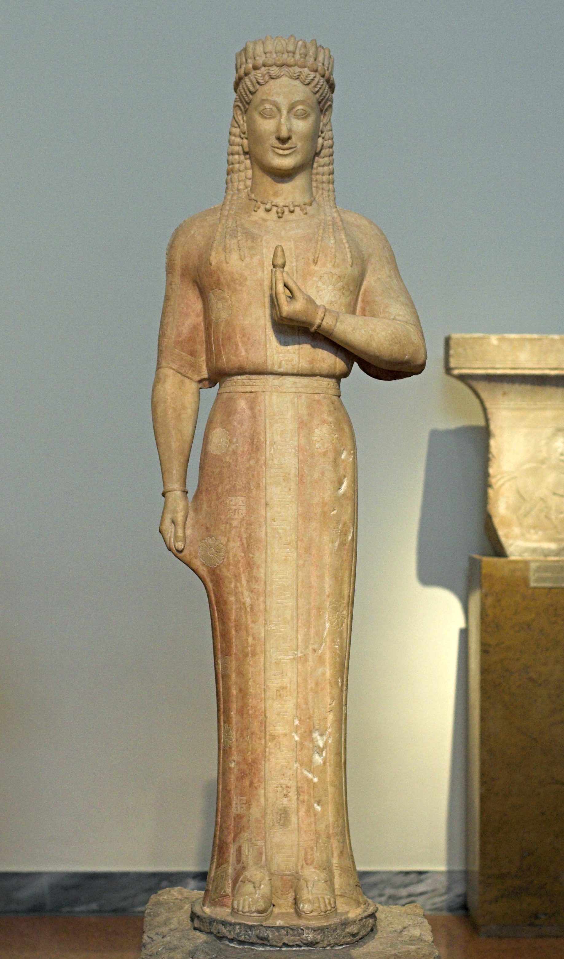 Kore, the work of Ariston of Paros, 550-540 BC. Parian marble, height 211 cm. Exceptionally preserved statue. Found on grave of Frasikleia, as says the inscription on the pedestal, at Mirhinous in Attica. National Archaeological Museum of Athens, N 4889.